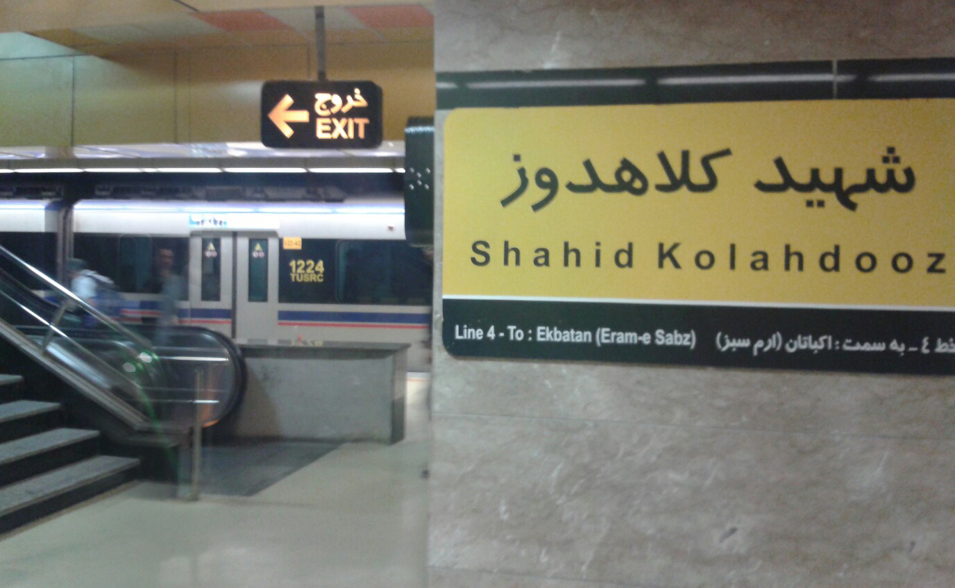 Shahid Kolahdouz (Tehran'No) Metro Station - Saturday, 24 May 2014